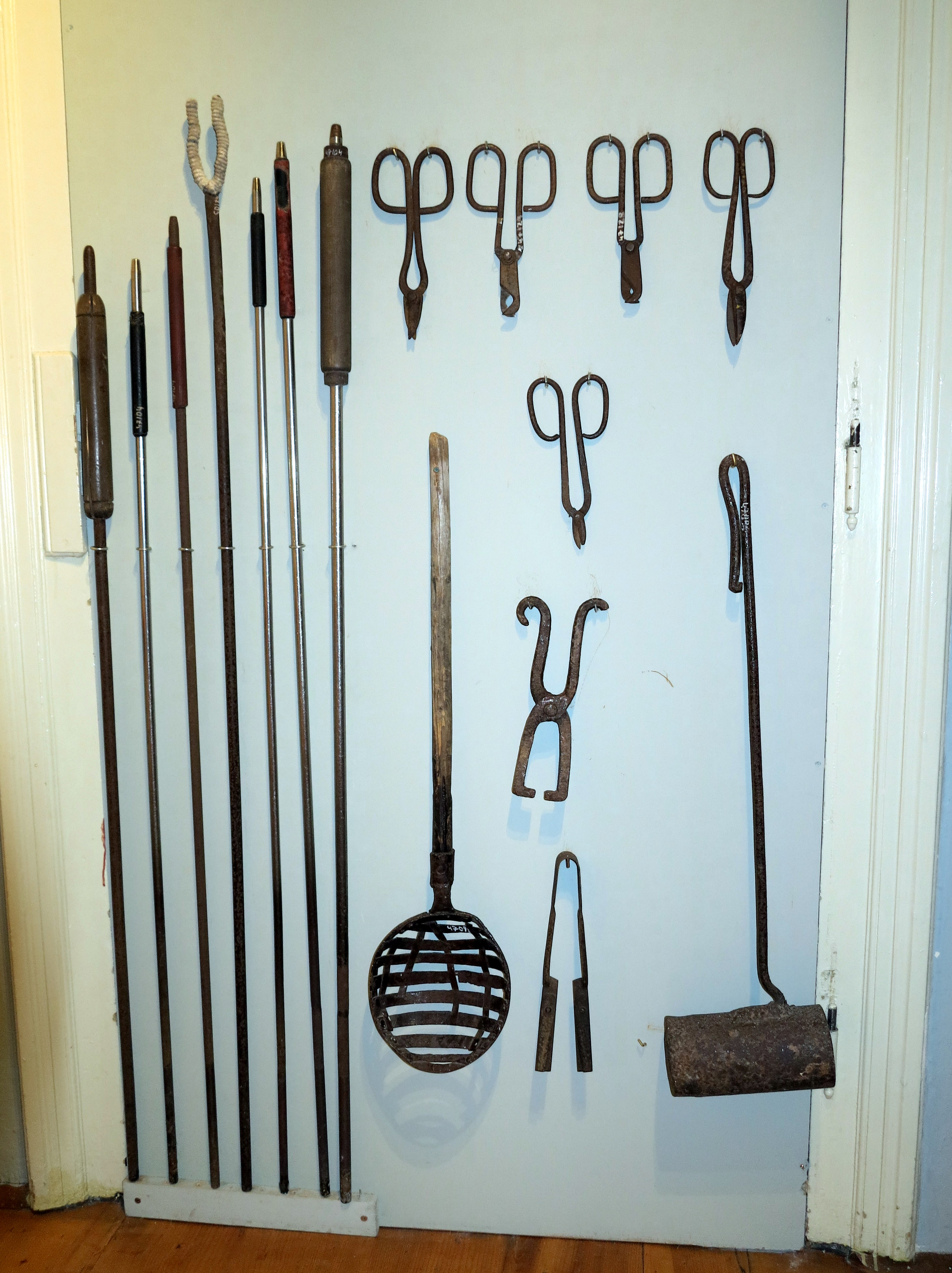 Glass products, presumably from the village glassblower Tscherniheim, a place of Forest glass production from 1621 to 1879 in the municipality Hermagor-Pressegger See in Carinthia / Austria / EU. Exhibits at the Museum of Folk Culture in Spittal an der Drau.